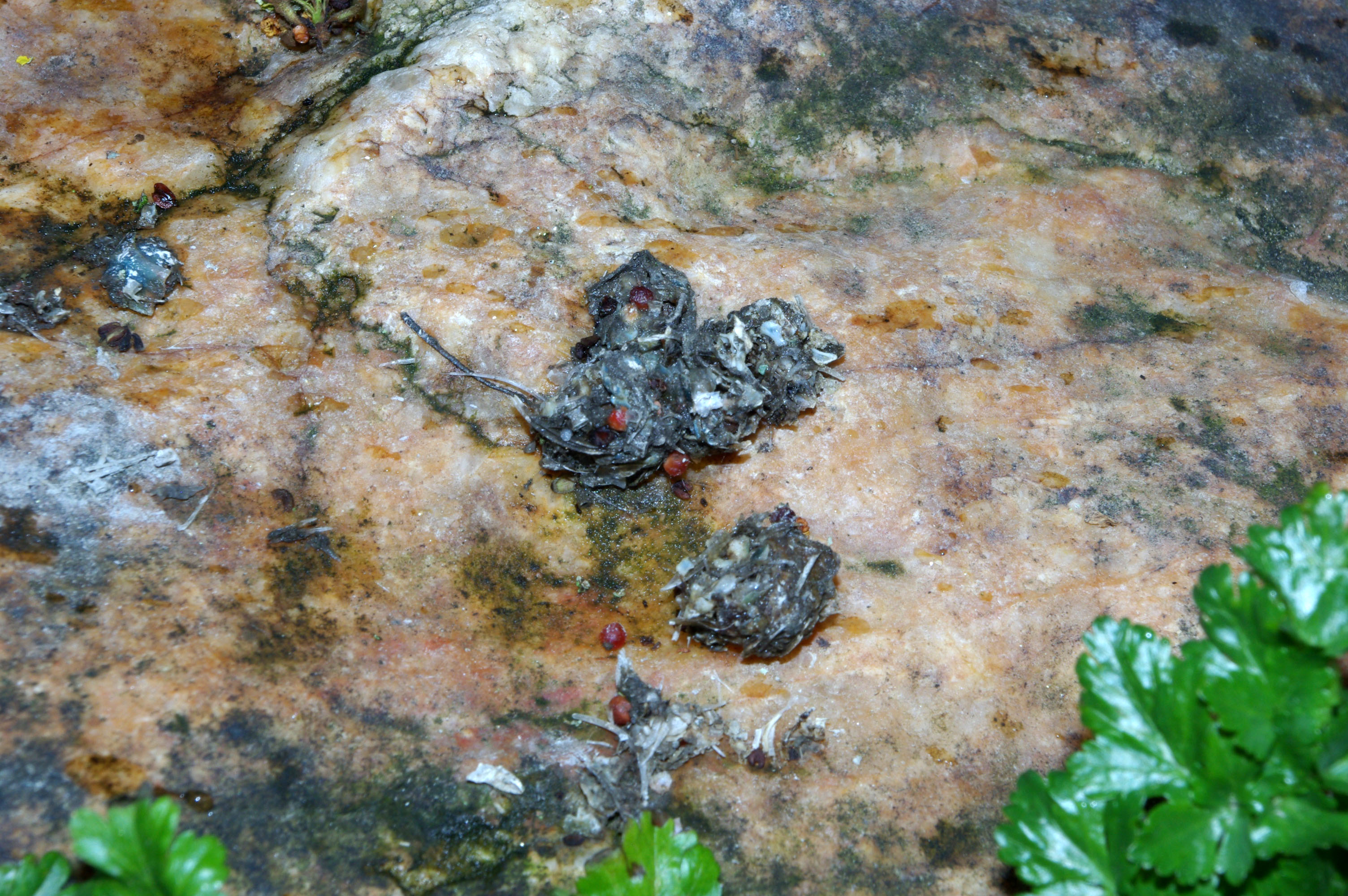 European otter (Lutra lutra) droppings near Pozanco (Ávila, Spain)